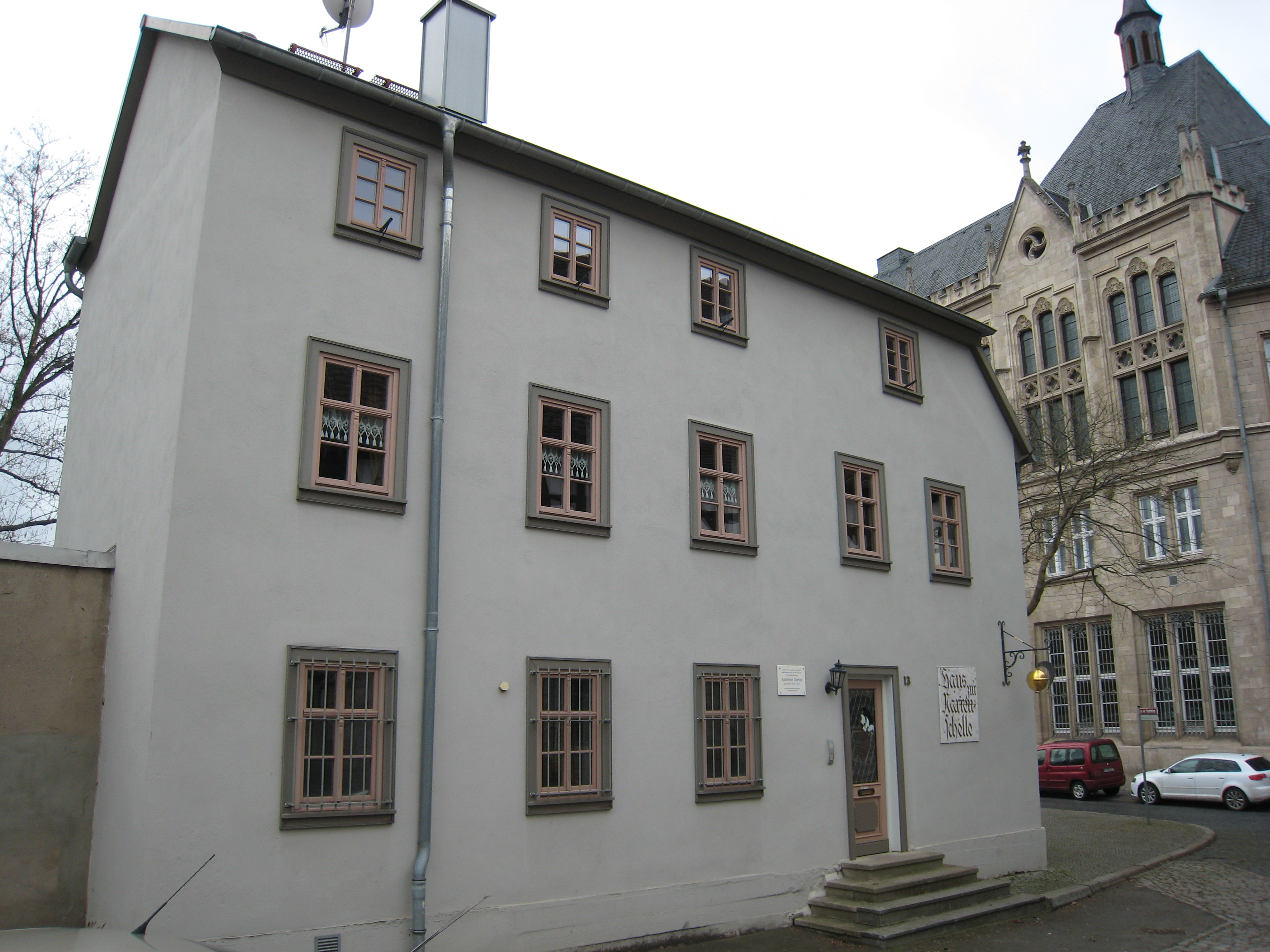 Haus zur Narrenschelle